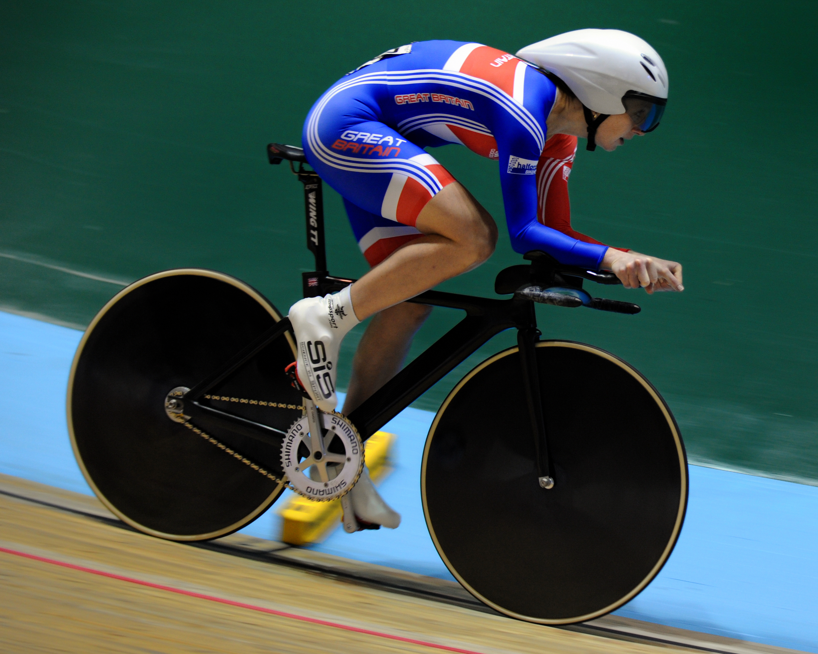 Wendy Houvenaghel at the 2008 UCI World Track Cycling Champinships in Manchester